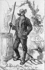 Illustration from the October 20, 1877 edition of Harper's Weekly, showing a Kentucky moonshiner mixing mash at an illicit still. This depiction is part of a larger composite entitled "The Moonshine Man of Kentucky."